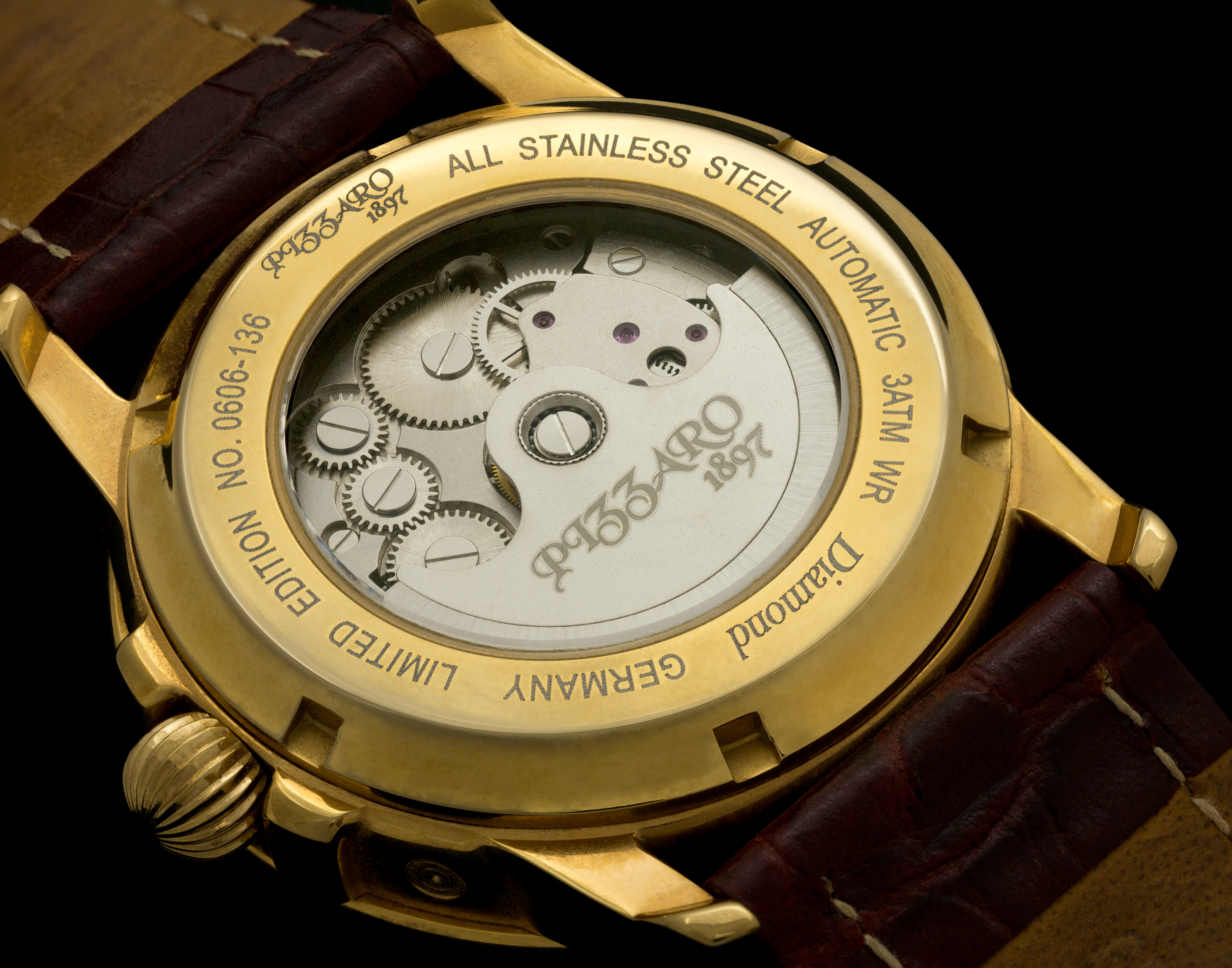 Self-winding (automatic) wristwatch with transparent backside (Pizzaro 1897). Macro stacked image. This photograph was taken with a Panasonic Lumix DMC-G85/G80.